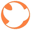 Nagiso Nagano chapter